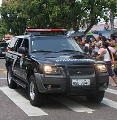 Police car of Para Civil Police - Brazil